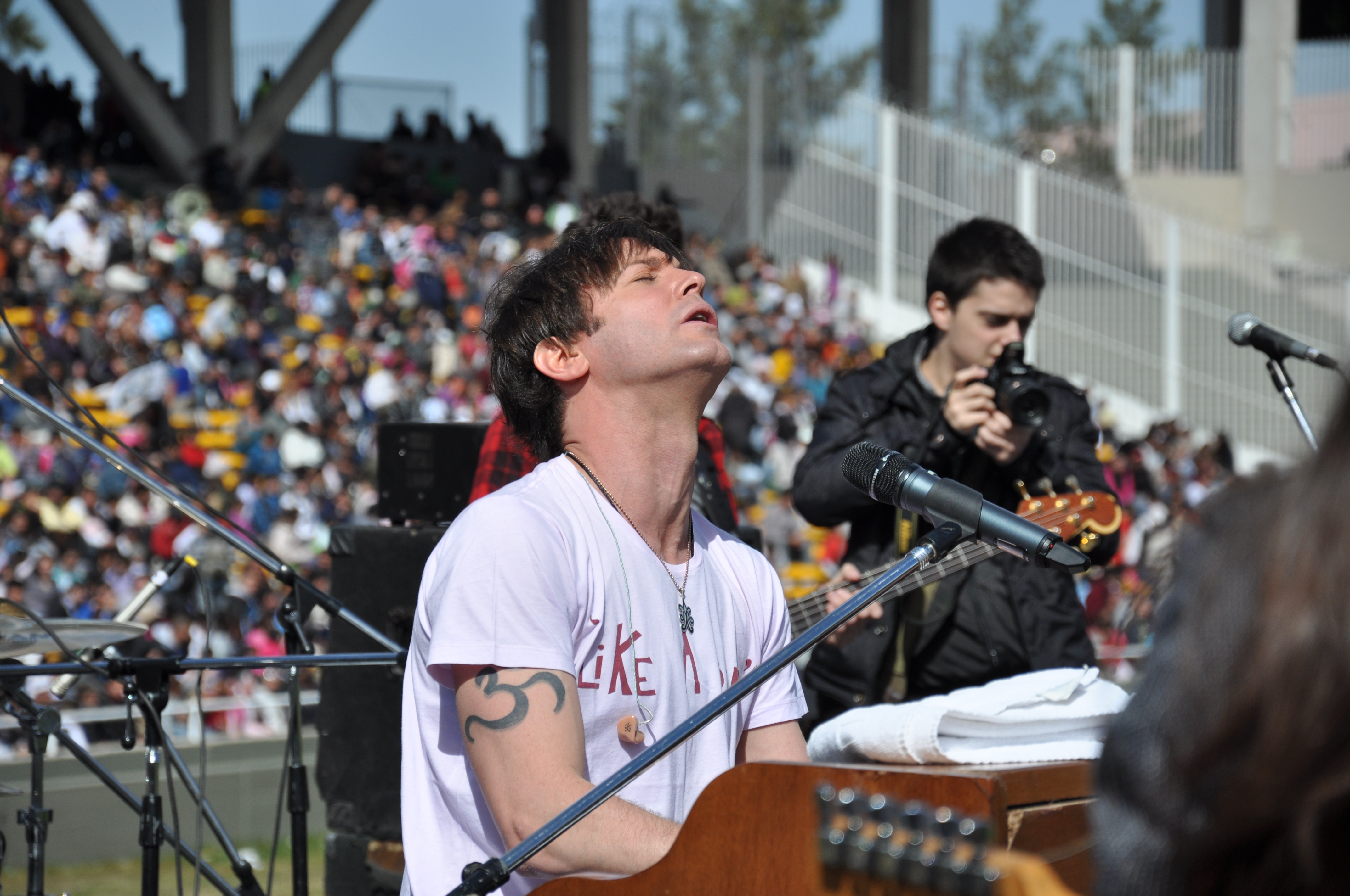 Axel at a concert in Cordoba, Argentina.